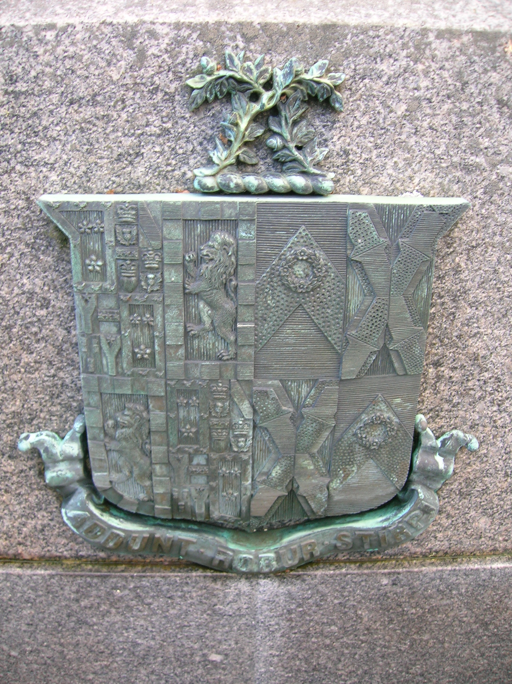 Findlay of Carnell Coat of Arms, Craigie Parish Church, South Ayrshire, Scotland